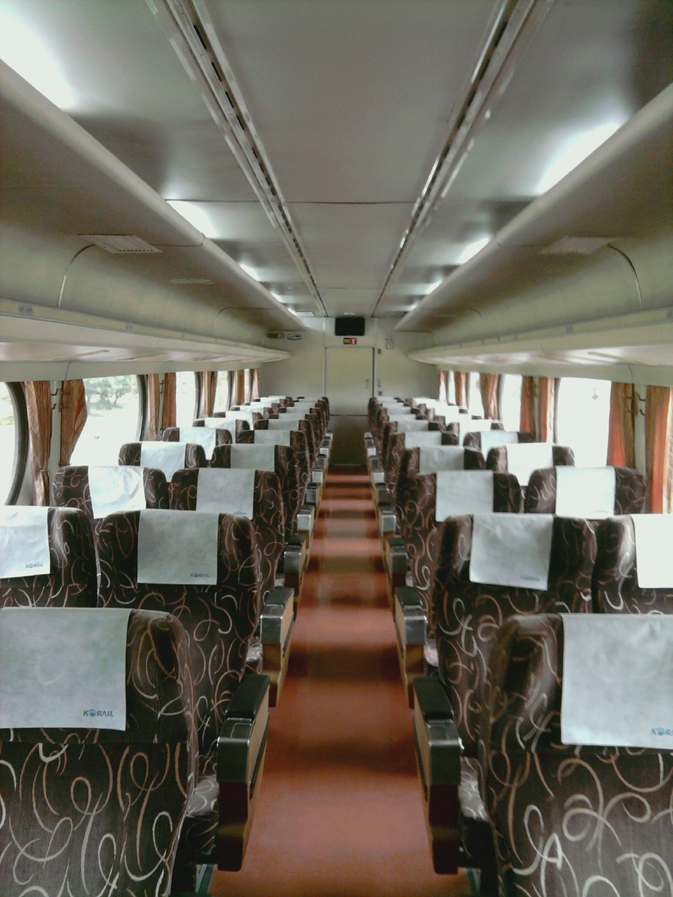 Interior of Korean Saemaul Express train.